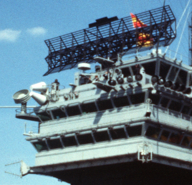 A view of the SPS-43 radar atop the island of the U.S. Navy aircraft carrier USS America (CV-66) at the Naval Operating Base, Norfolk, Virginia (USA), on 20 October 1978.